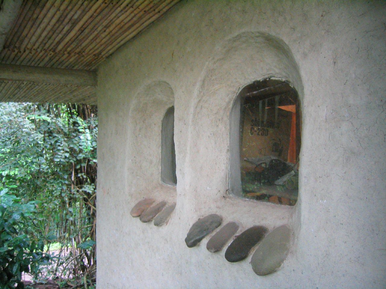 A Costa Rican bodega-style cob house.